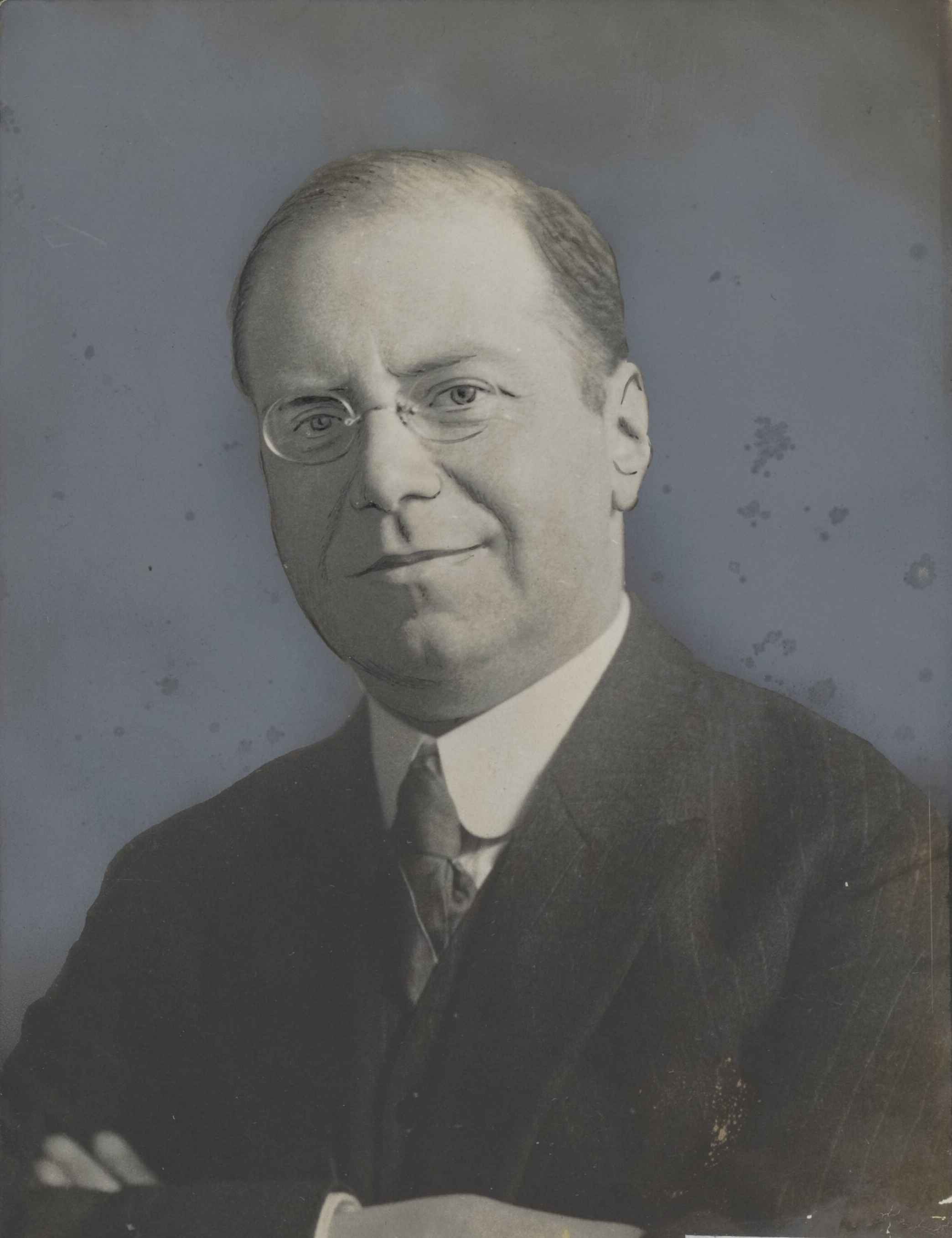 David Cohen (1882-1967) in 1924 (professorship Leiden University).